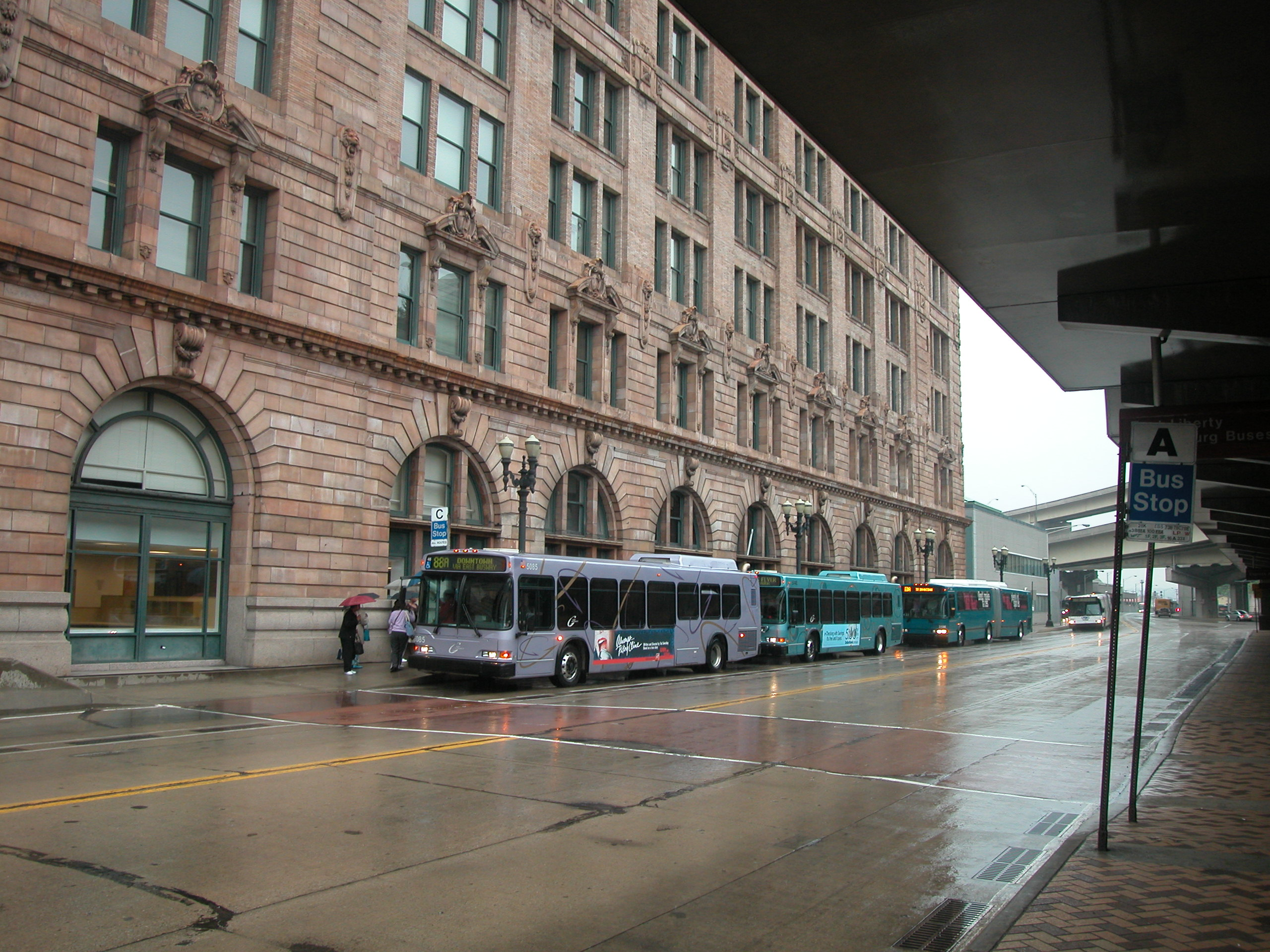 20070516 02 East Busway @ Penn Station, Pittsburgh